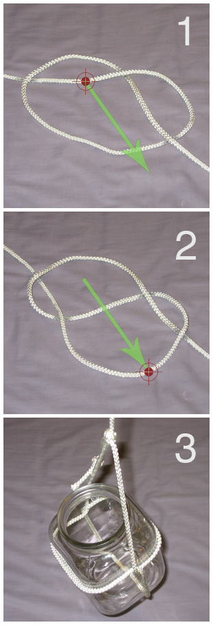 This illustrates the steps to follow in order to make a barrel hitch knot.